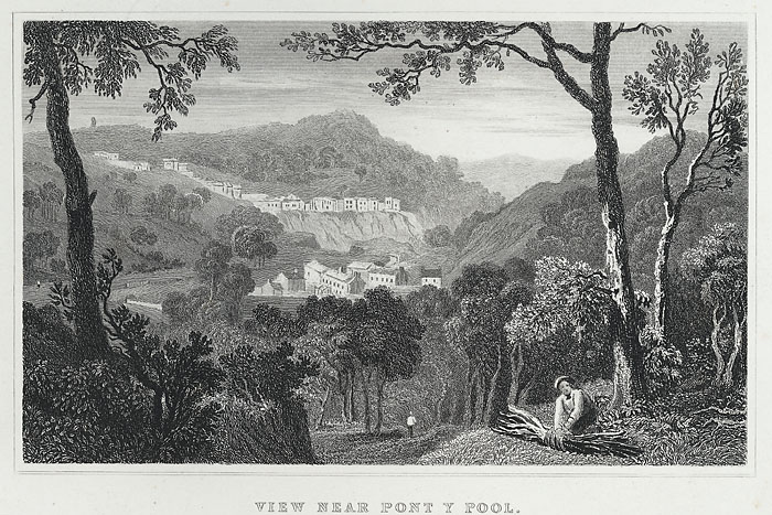 A distant view of a town with a figure gathering firewood in the foreground.